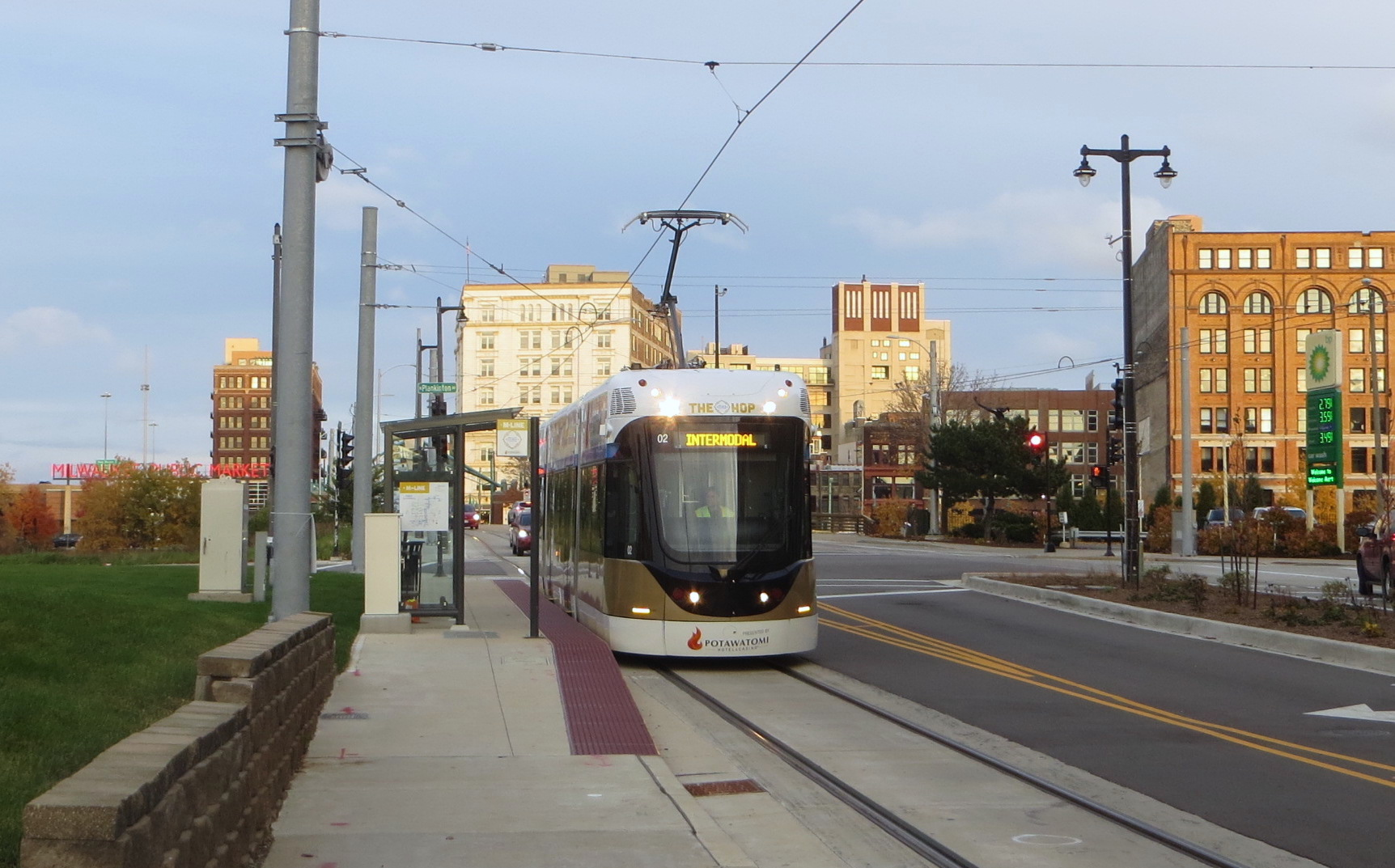 Car 02 of Milwaukee's The Hop streetcar system at the line's westbound "St. Paul at Plankinton" stop (on St. Paul Avenue at Plankinton Avenue).